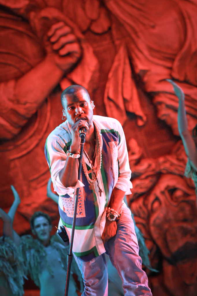 Kanye West performing at the 2011 The SWU Music & Arts Festival.